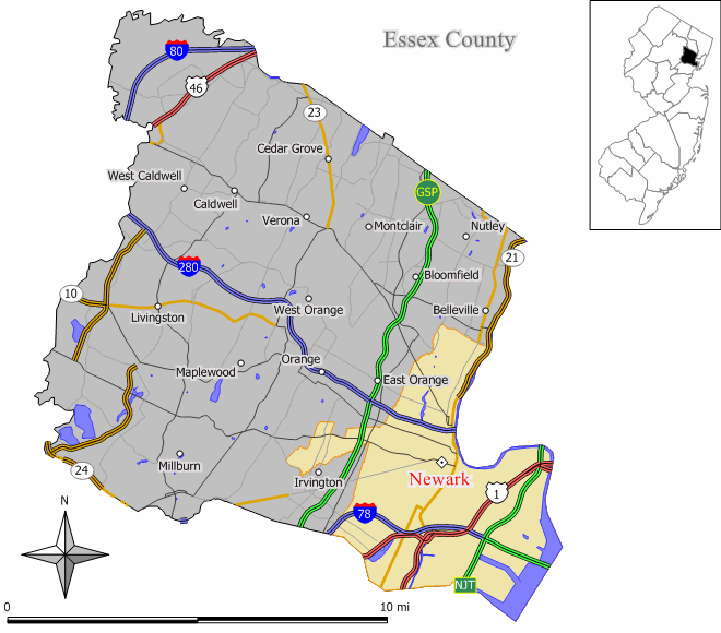 Source: Jim Irwin Original work by Jim Irwin, December 2005.